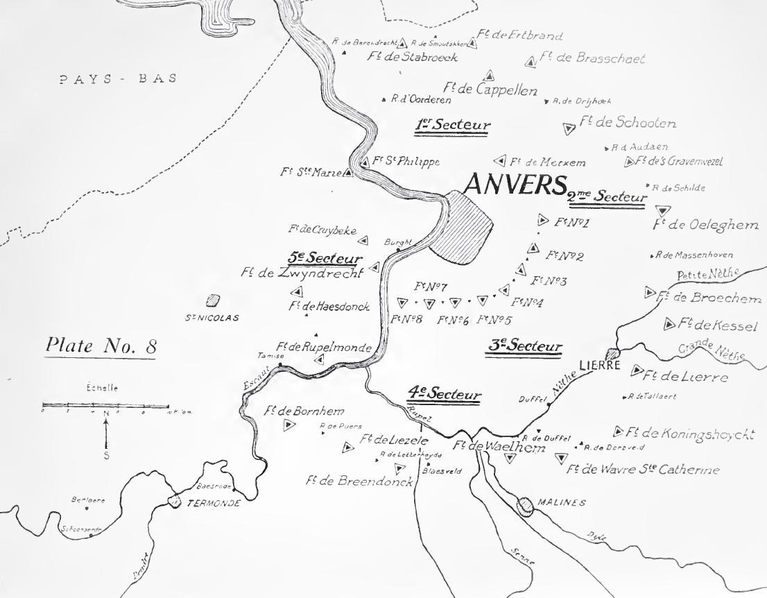 Map of Belgian National Redoubt at Antwerp, 1914